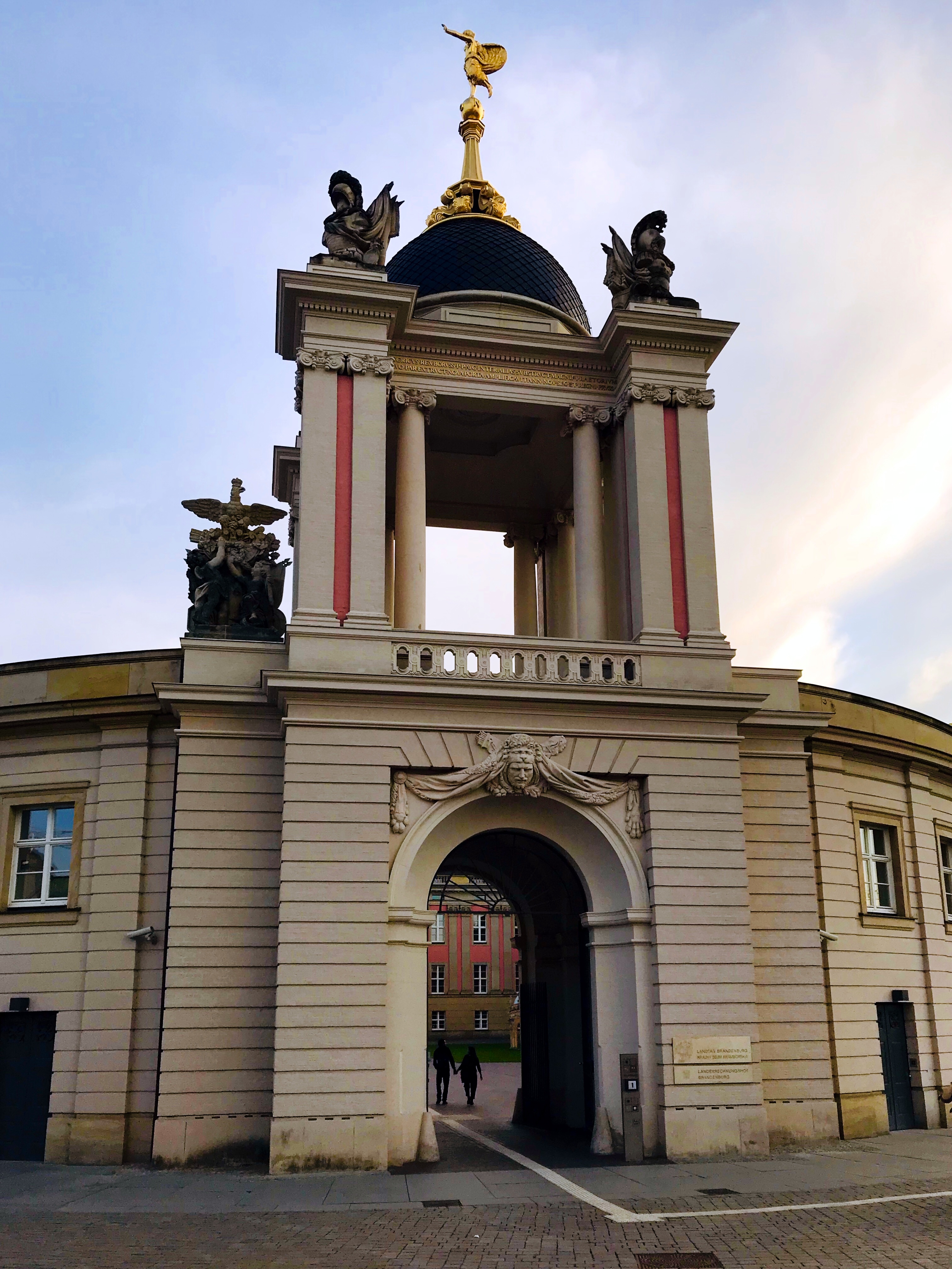 The Fortunaportal